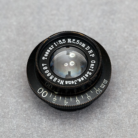 Carl Zeiss Jena Tessar 3.5cm 1:3.5 (Probably 1913 made)